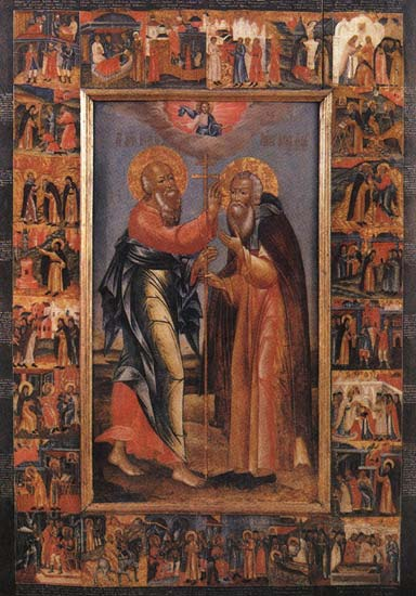 vision of Avraamii of Rostov